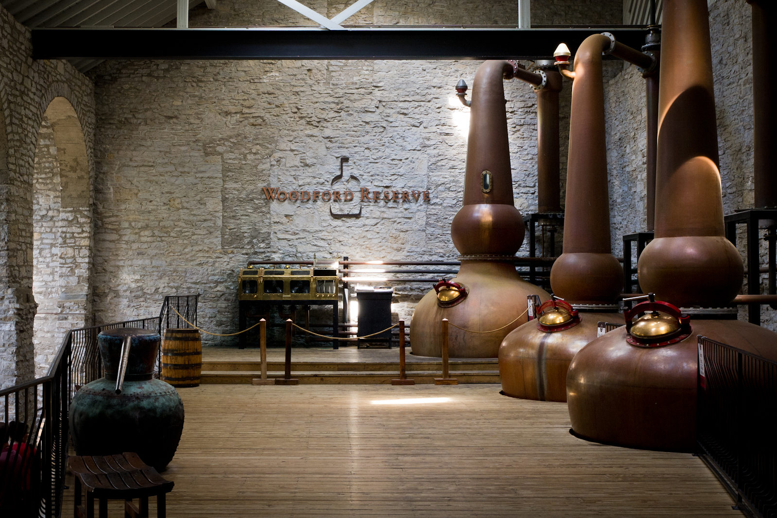 The Still Room, where copper stills are used to seperate alcohol from the mash, in a process known as distillation.Photo taken with an Olympus E-5 at the Woodford Reserve distillery, Versailles, Kentucky, USA.Cropping and post-processing performed with Adobe Lightroom.